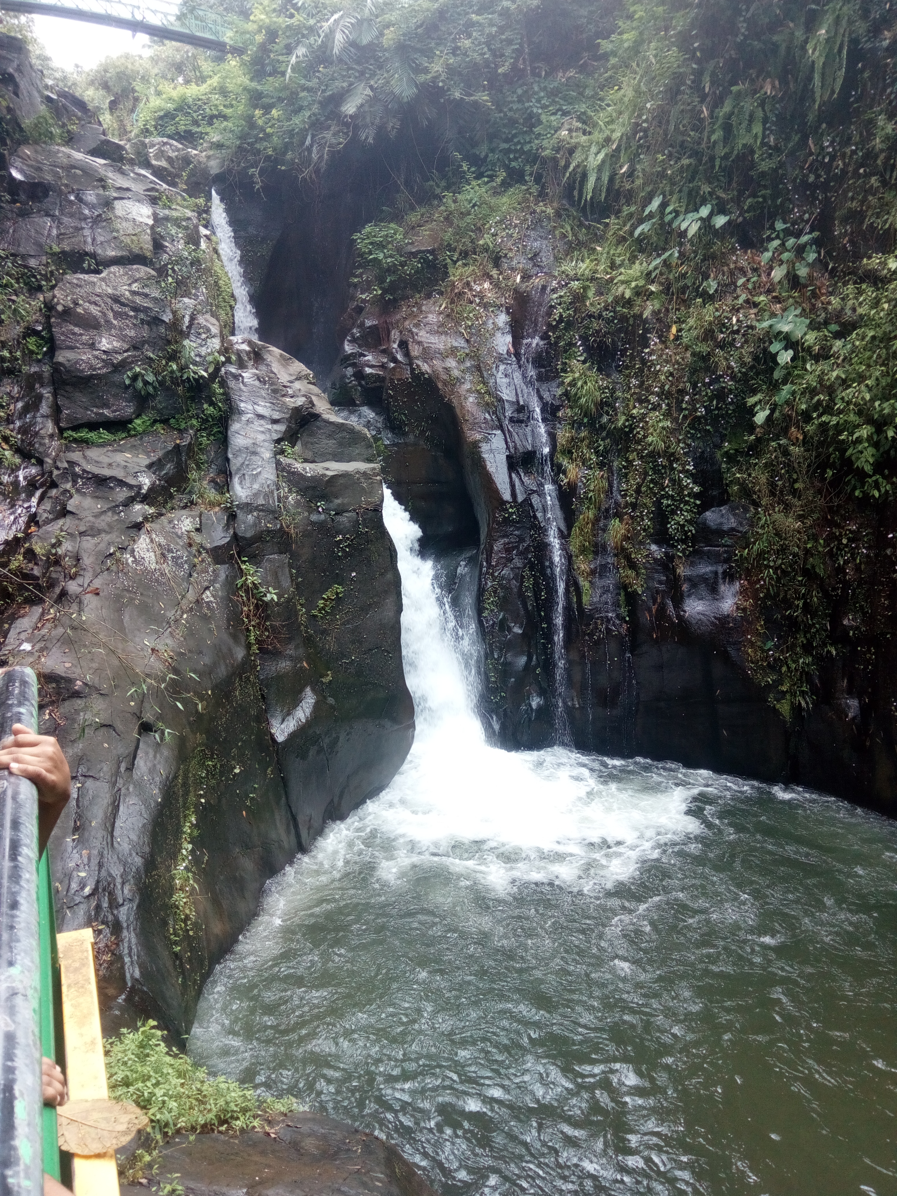 Keralamkundu Falla's is near karvarakundu 5 km apart from the town. Last three km is truck road. It is in the midst of plantation. Too place for week end tour.